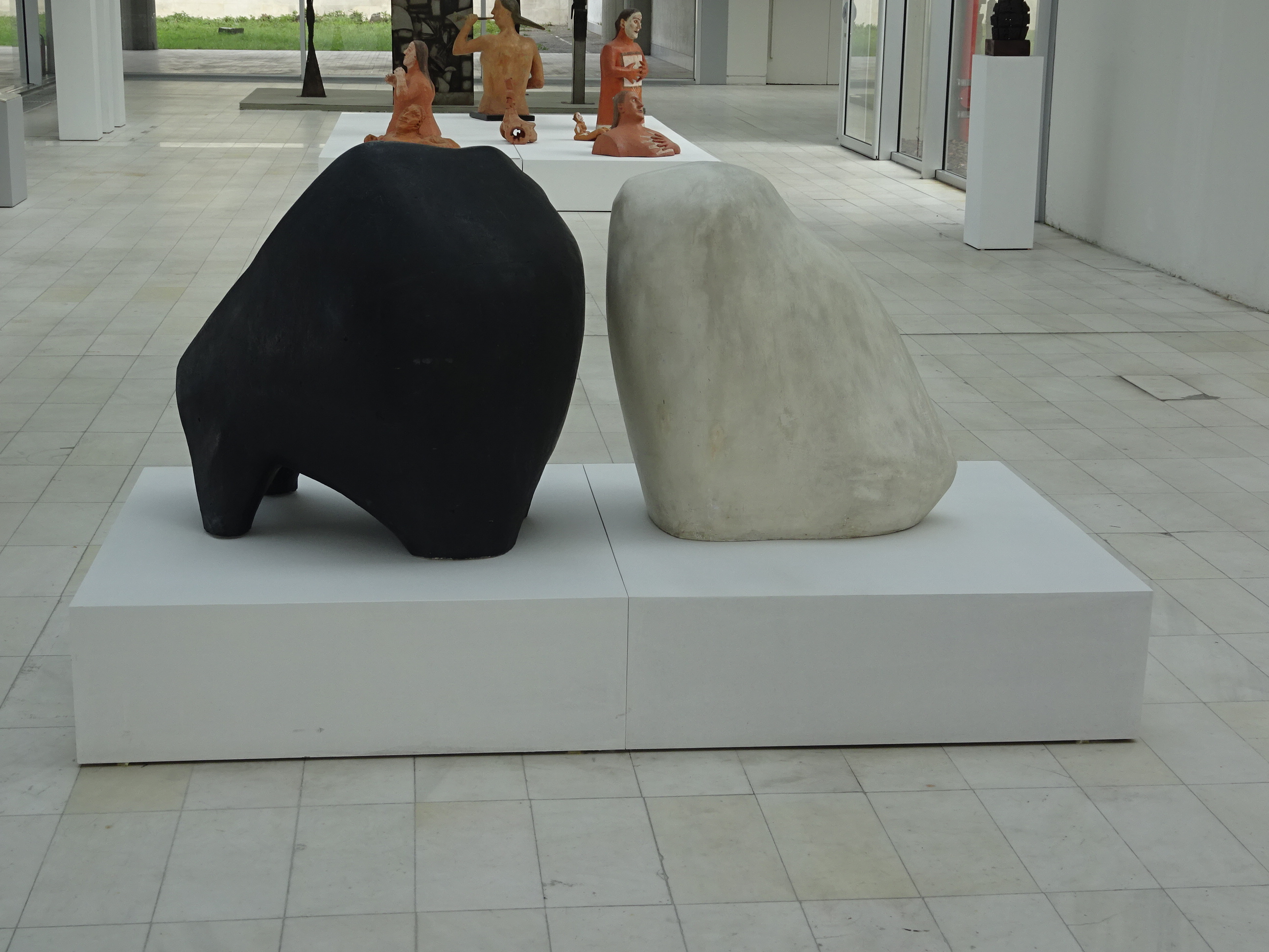 The Museum of Contemporary Art in Skopje-Macedon Ова е фотографија на споменик на културата во Македонија со типски код: B08This is a a photo of a cultural monument in North Macedonia with type id: B08